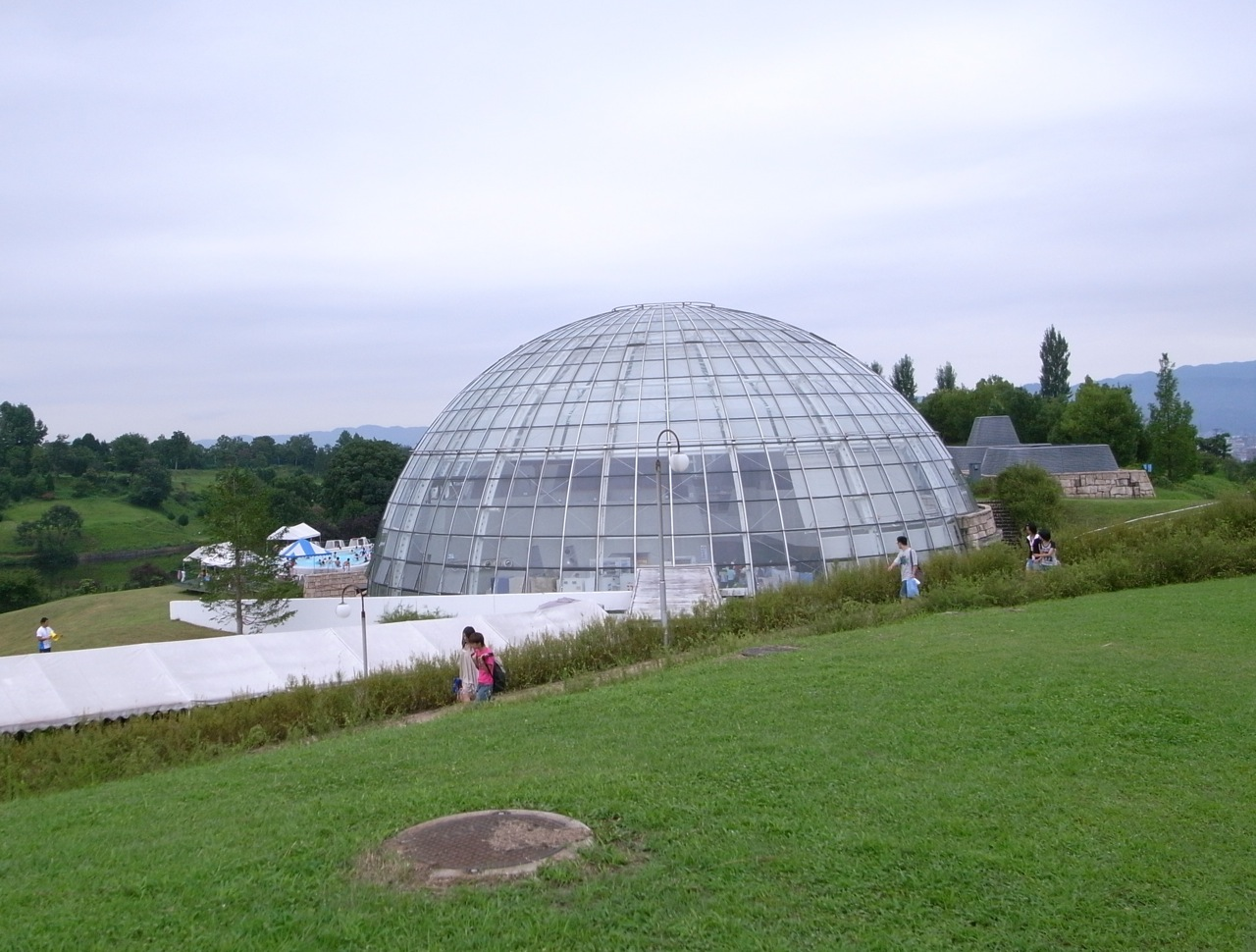 Glass house in Green Hills Tsuyama, Tsuyama, Japan.